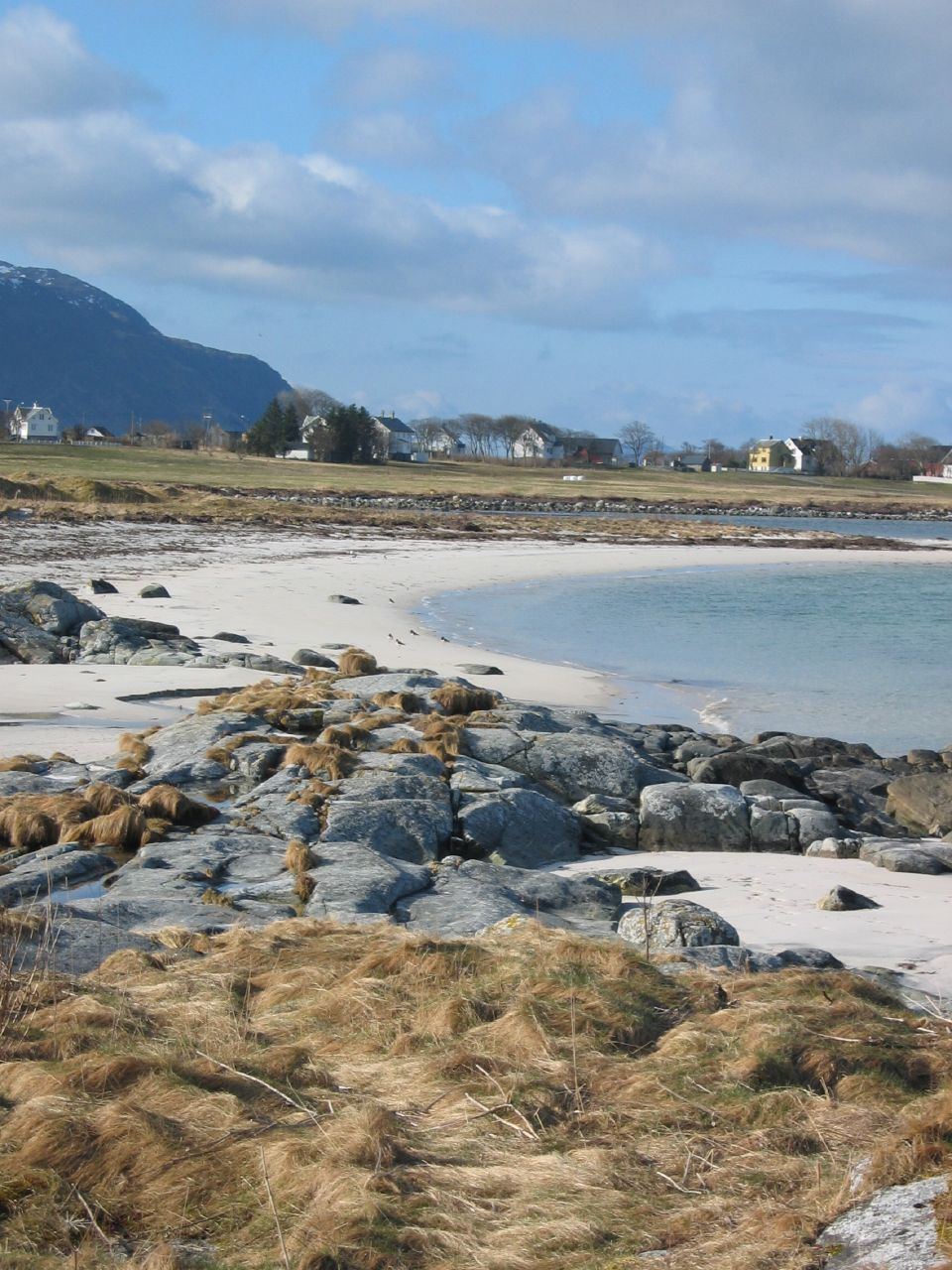 Beach on Giske Island in Møre og Romsdal.